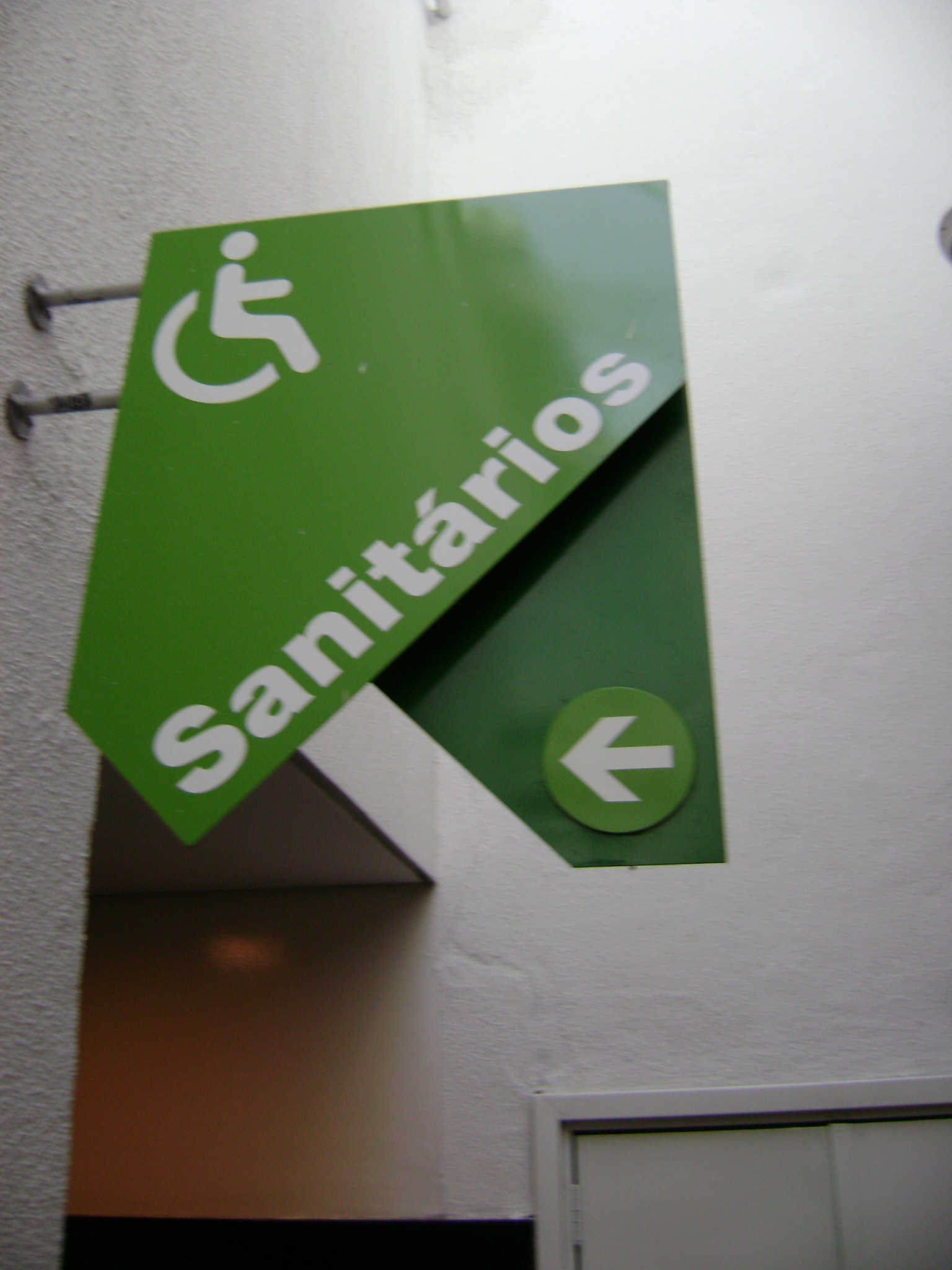 Placa indicativa de sanitários em Belo Horizonte.